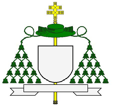 The coat of arms of a patriarch in the Roman Catholic church.